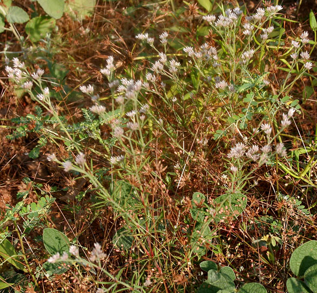 Polycarpaea corymbosa (Synonyms: Achyranthes corymbosa, Polycarpaea nebulosa)- Oldman's Cap • Hindi: Bugyale • Marathi: Koyap, Maitosin • Tamil: Nilaisedachi, Cataicciver, Pallippuntu • Malayalam: Katu-mailosina • Telugu: Bommasari, Rajuma • Kannada: paade mullu gida, poude mullu, poude mullu gida • Sanskrit: Bhisatta, Okharadi, Parpata, Tadagamritikodbhava- in Herbal Garden, in Rangareddy district of Andhra Pradesh, India.